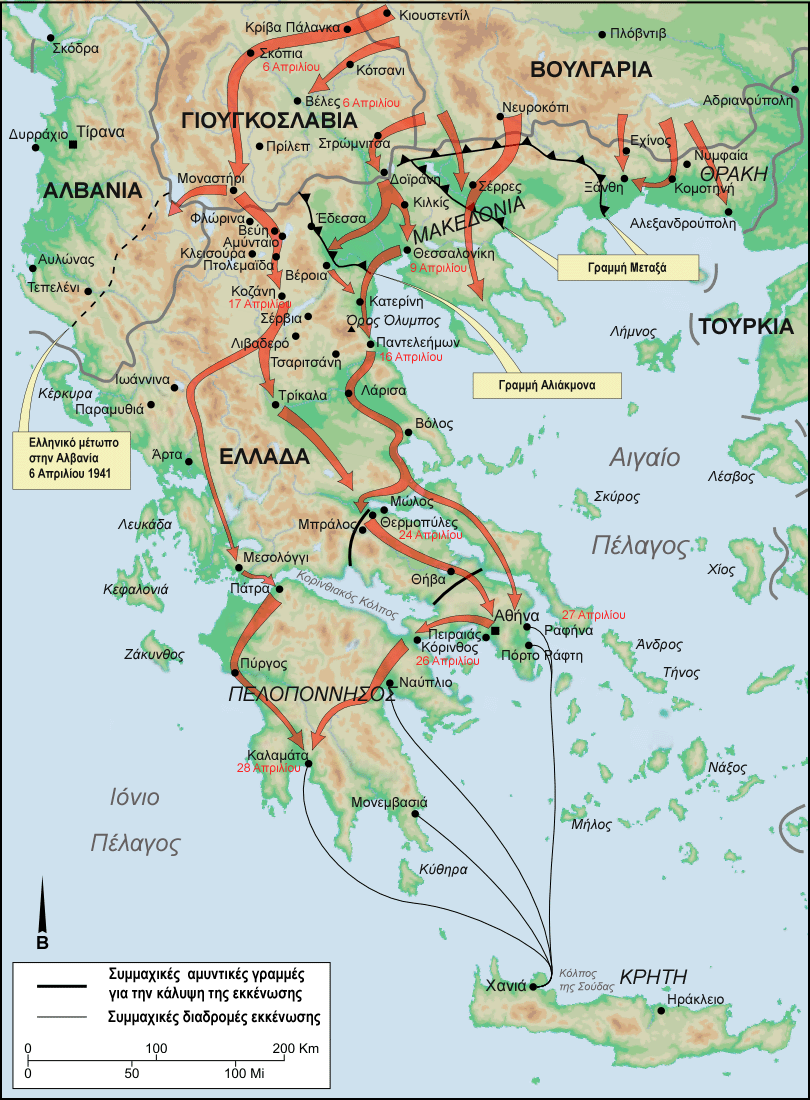 Greek translation based on English original